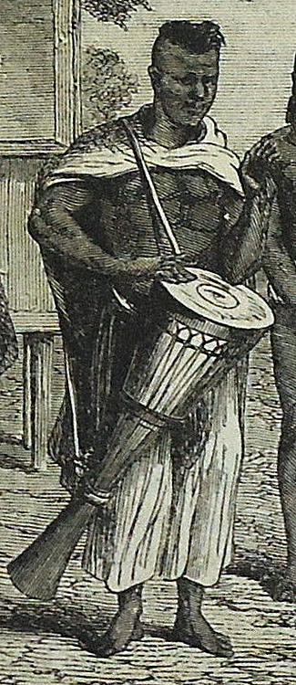 Instrument from 1892 engraving that resembles modern skor chhaiyam (Khmer: ស្គរឆៃយ៉ាំ). Cropped version of Engraving, a Cambodian drum.